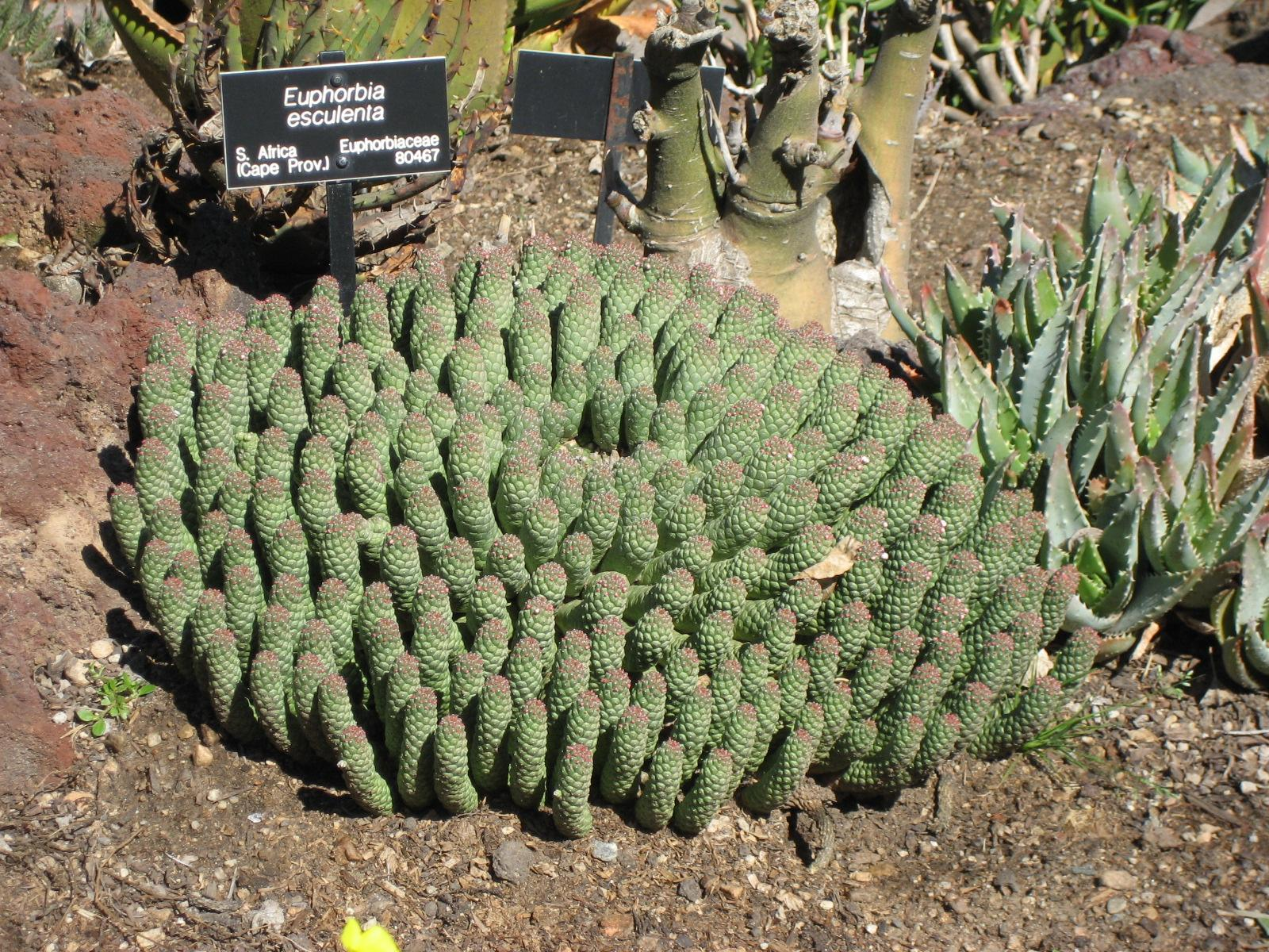 Photographed at Huntington Gardens (Los Angeles) in March